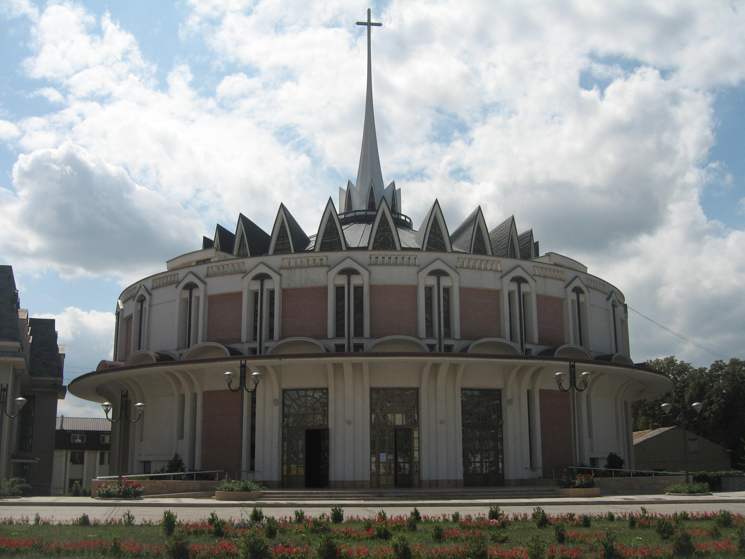 Catedrala Sfânta Maria Regină din Iaşi